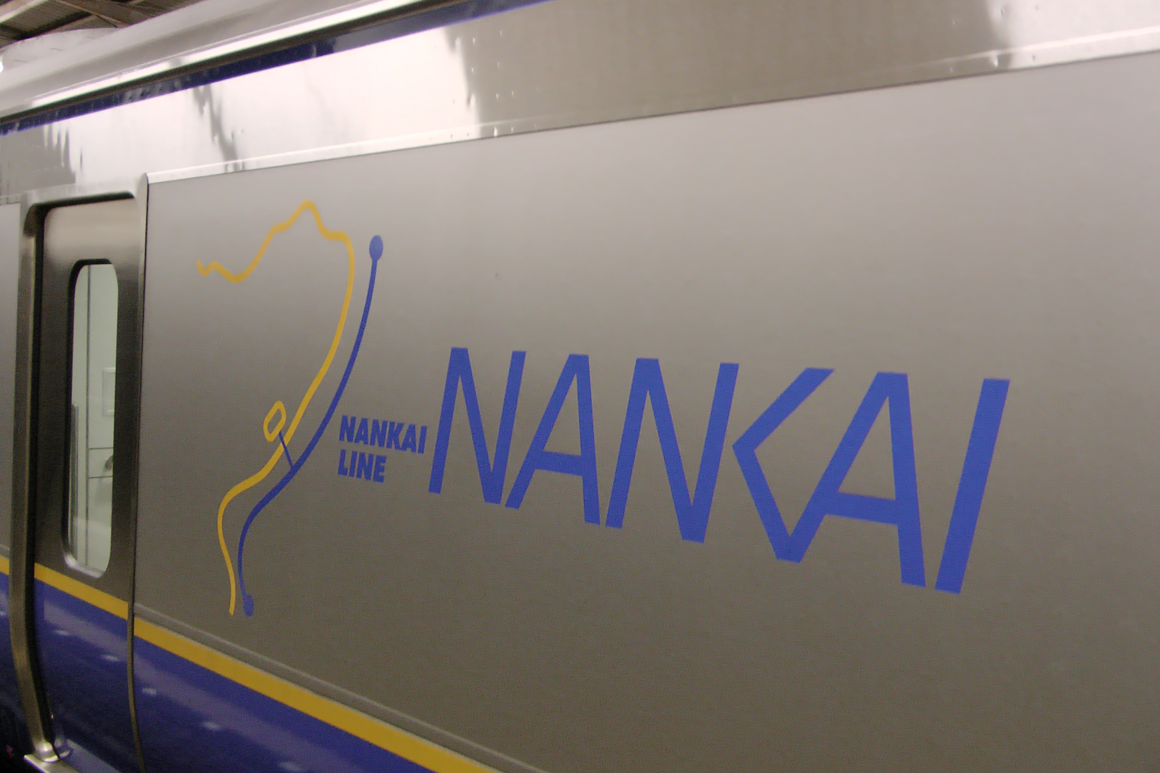 The logo of Nankai 12000 series.It is expressing the Nankai Line and the Nankai Airport Line. This logo is sealed only Nankai 12000 series.